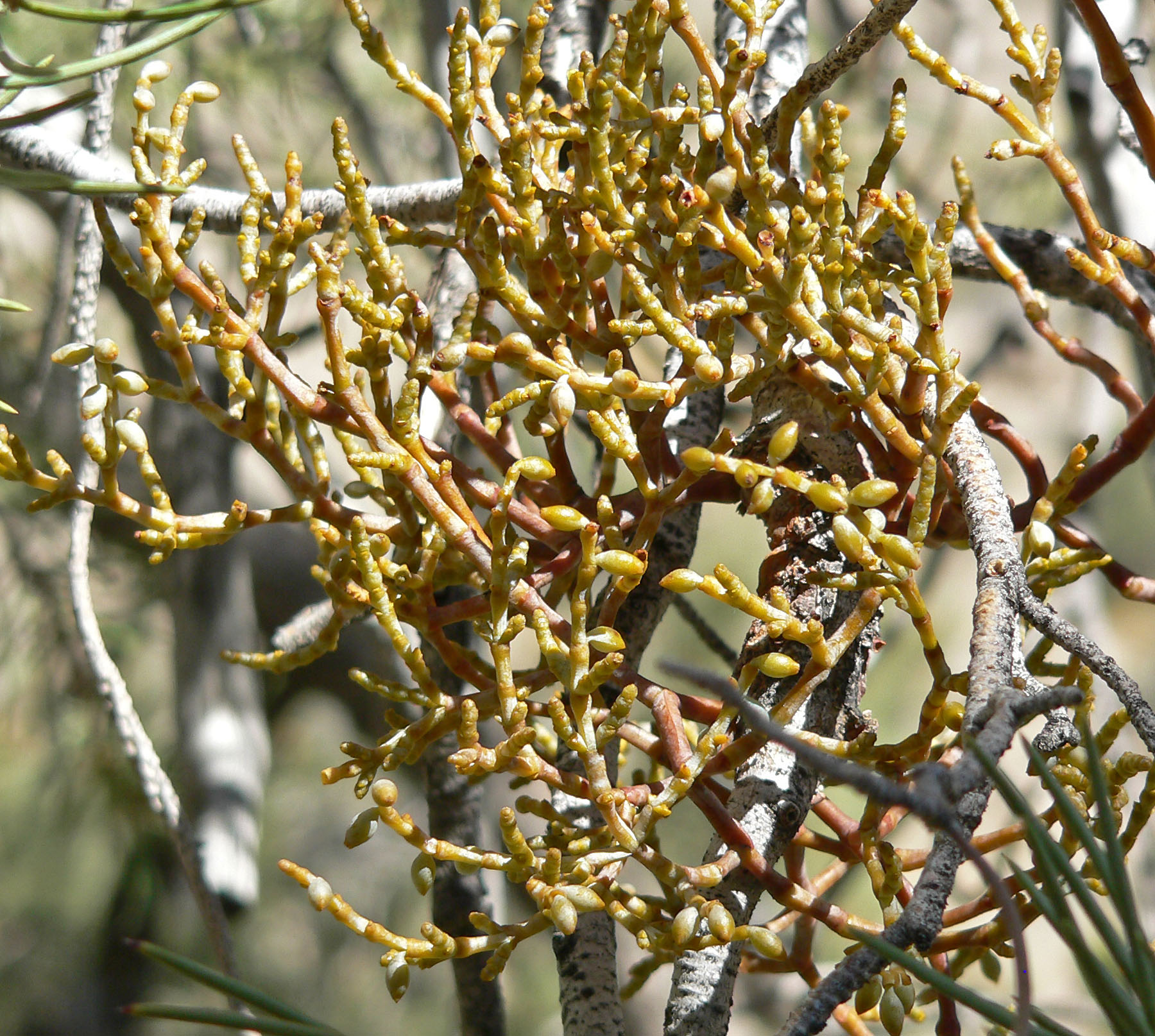 Arceuthobium divaricatum on Pinus monophylla near the Potosi road at its junction with highway 160, Spring Mountains, southern Nevada (elev. about 1550 m)